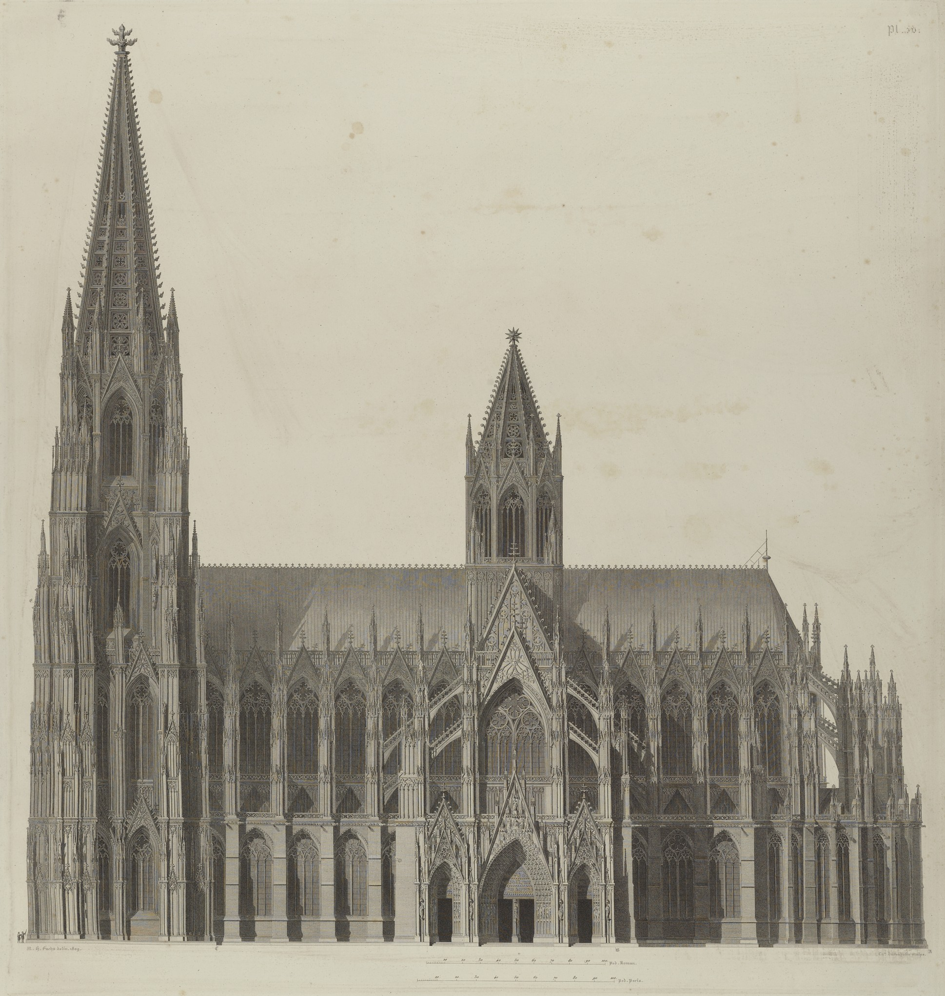 Sulpiz Boisserée: Ansichten, Risse und einzelne Theile des Doms von Köln, mit Ergänzungen nach dem Entwurf des Meisters, nebst Untersuchungen über die alte Kirchen-Baukunst und vergleichenden Tafeln der vorzüglichsten Denkmale. Cotta, Stuttgart 1821, plate 3. Fictional view of finished Cologne Cathedral, after a draft by Sulpiz Boisserée.